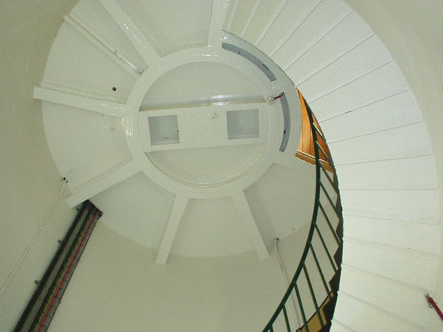 Inside St. Catherine's Lighthouse. The spiral staircase inside the base of St. Catherine's Lighthouse, Isle of Wight.